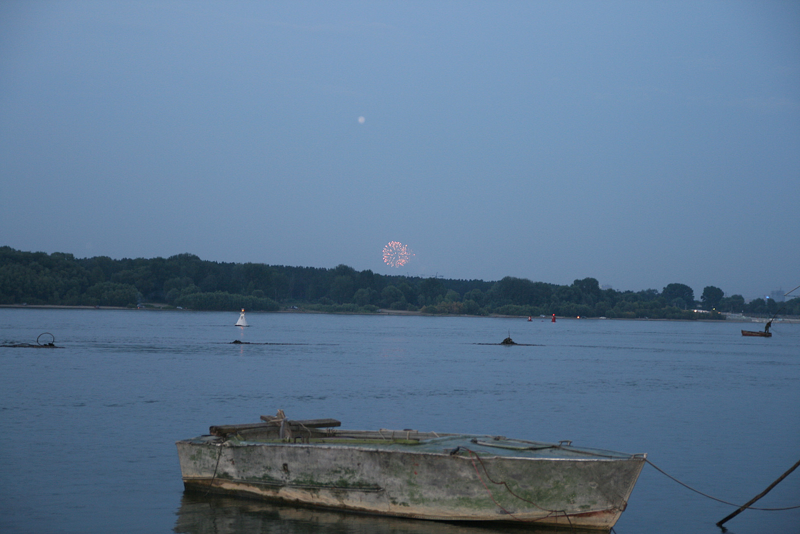 Ob River with a fishing boat. Near Novosibirsk (Russia).